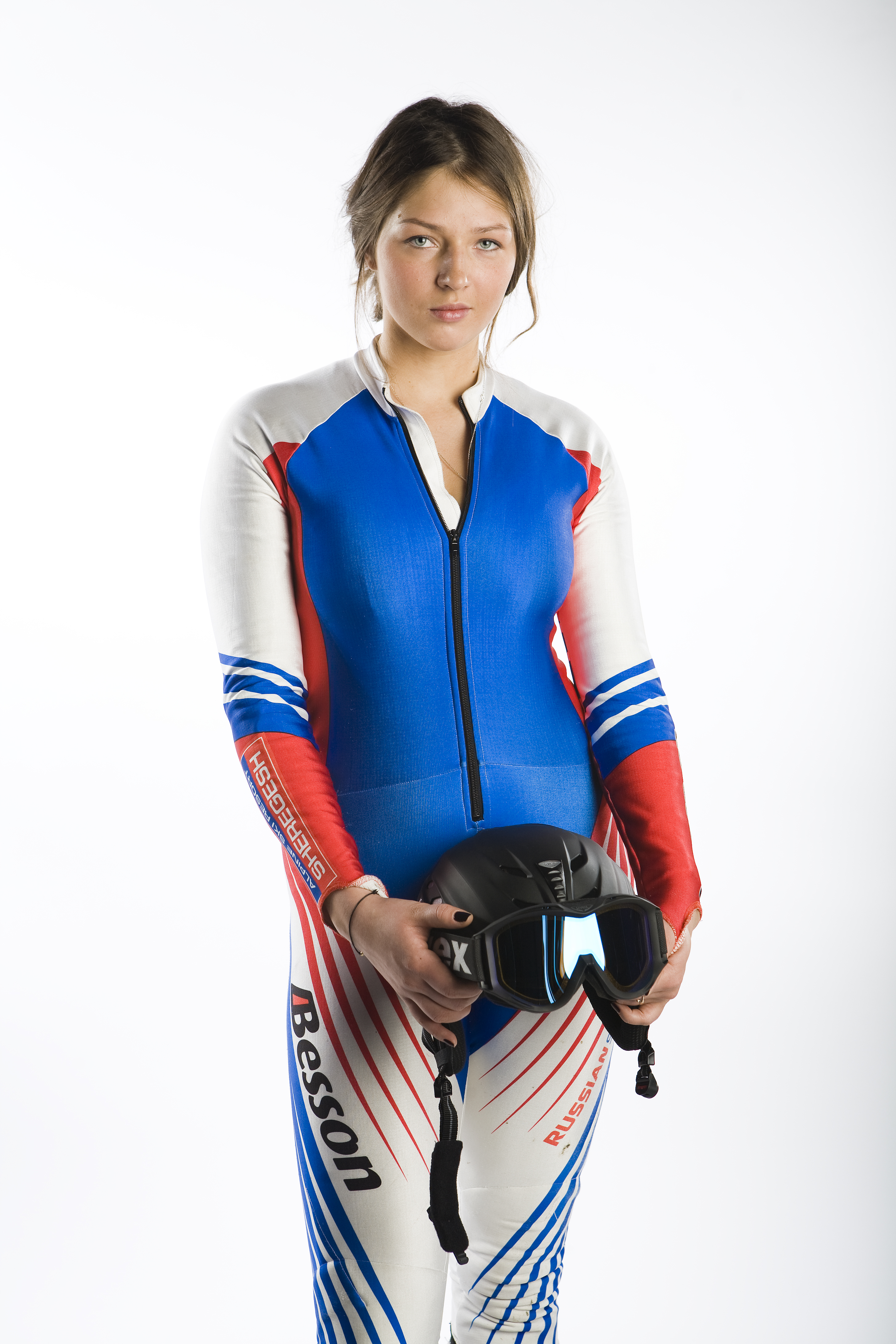 Zavarzina Alena, russian snowboarder